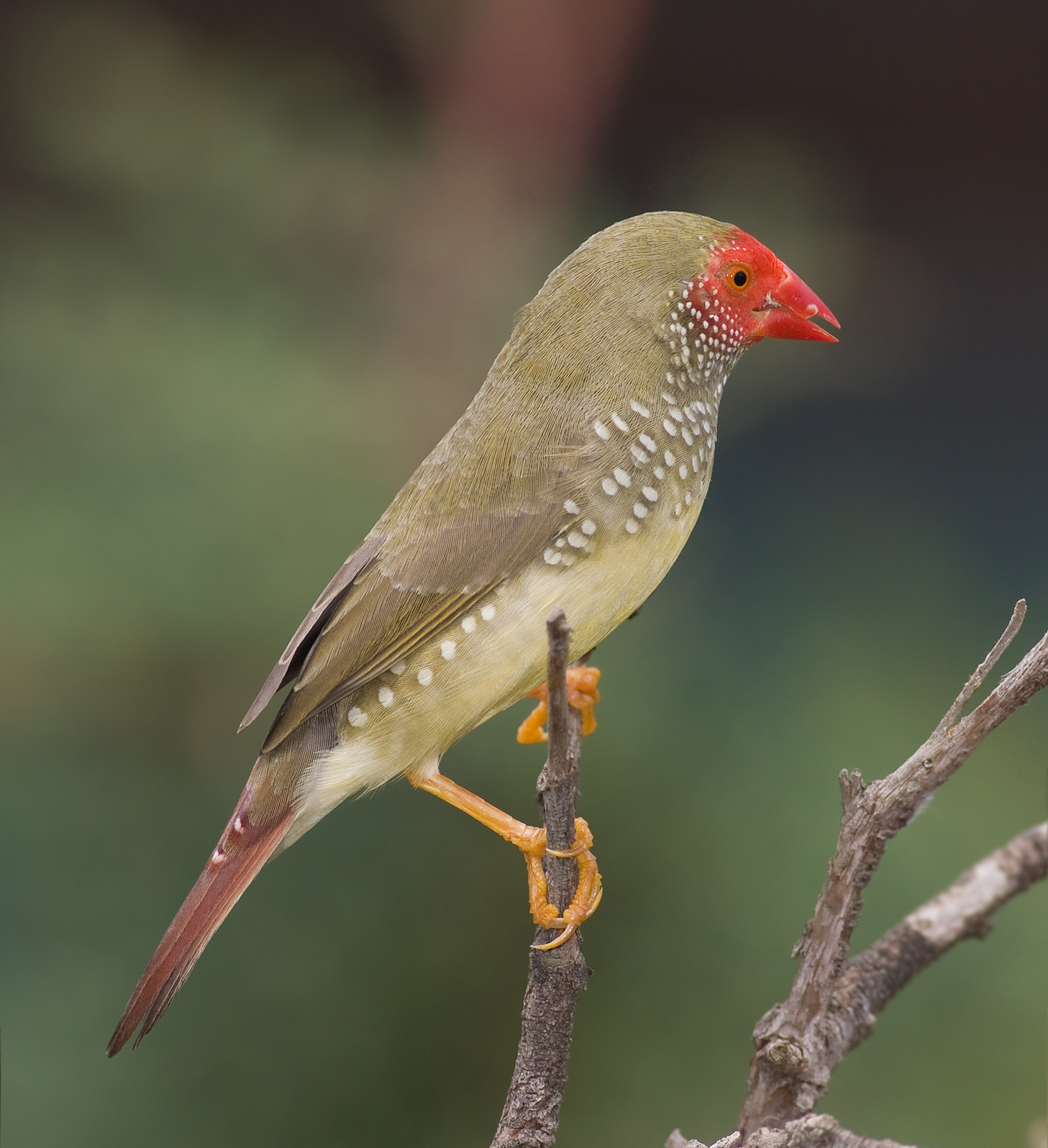 Star Finch (Neochmia ruficauda), Walk-in Aviary, Canberra, Australian National Territory, Australia